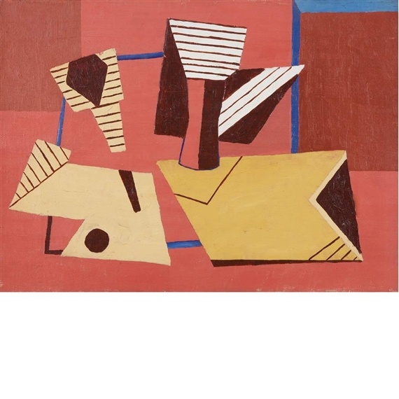 Albert Eugene Gallatin, Untitled, 1947, oil on canvas, 10¼ x 14 inches